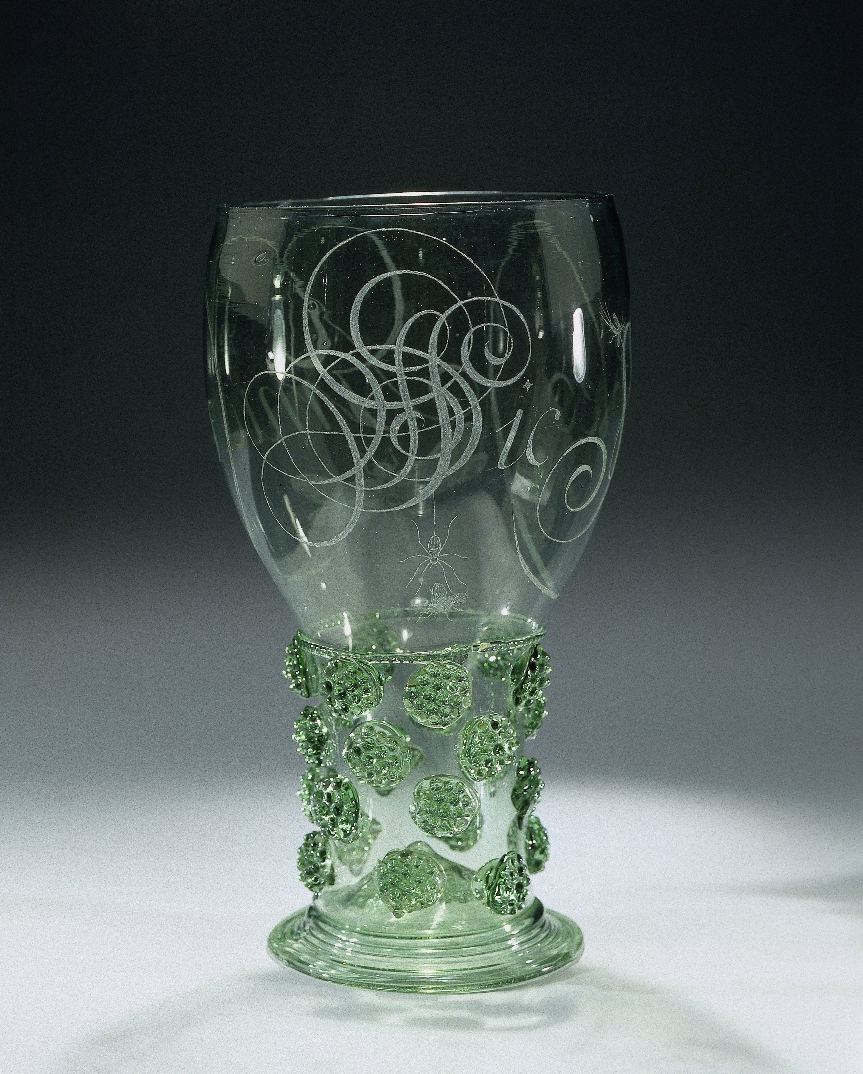 A roemer is a wine glass. It has a taller, more slender stem than a Berkemeyer, and a convex bowl. Large examples were passed from person to person when a toast was drunk. The Latin inscription on this glass is derived from the Roman poet Terence and roughly translates as: ‘This is how I treat my friends’. In other words: I share a glass with those I consider to be friends. (Text copied from source.)